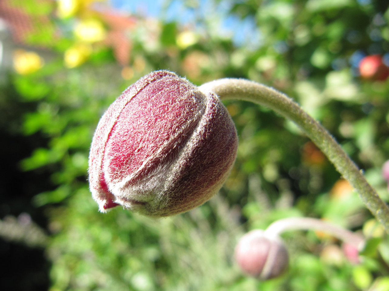 Flower bud of a Chinese Anemone